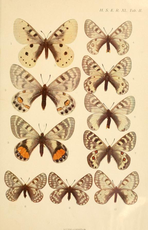 Avinoff, 1913 On some new forms of the genus Parnassius (Russian) [Trudy Russkago entomologicheskago obshchestva. Horae Societatis entomologicae rossicae, variis semonibus in Russia usitatis editae] Horae Soc. Ent. Ross. 40 (5) : 1-21, plate 2 1 Parnassius apollonius a. unica Avinov male 2 Parnassius charltonius ssp. n. vaporosus female 3 Parnassius charltonius ssp. n. autocrator female (=Parnassius autocrator) 4 Parnassius delphius ssp. jakobsoni female 5 Parnassius delphius ssp. n. jakobsoni male 6 Parnassius delphius hunza ab. n. deficiens female 7 Parnassius delphius staudingeri natio n hodja male 8 Parnassius boedromius ssp. hohlbecki male 9 Parnassius boedromius ssp. hohlbecki female 10 Parnassius boedromius ssp. candida male